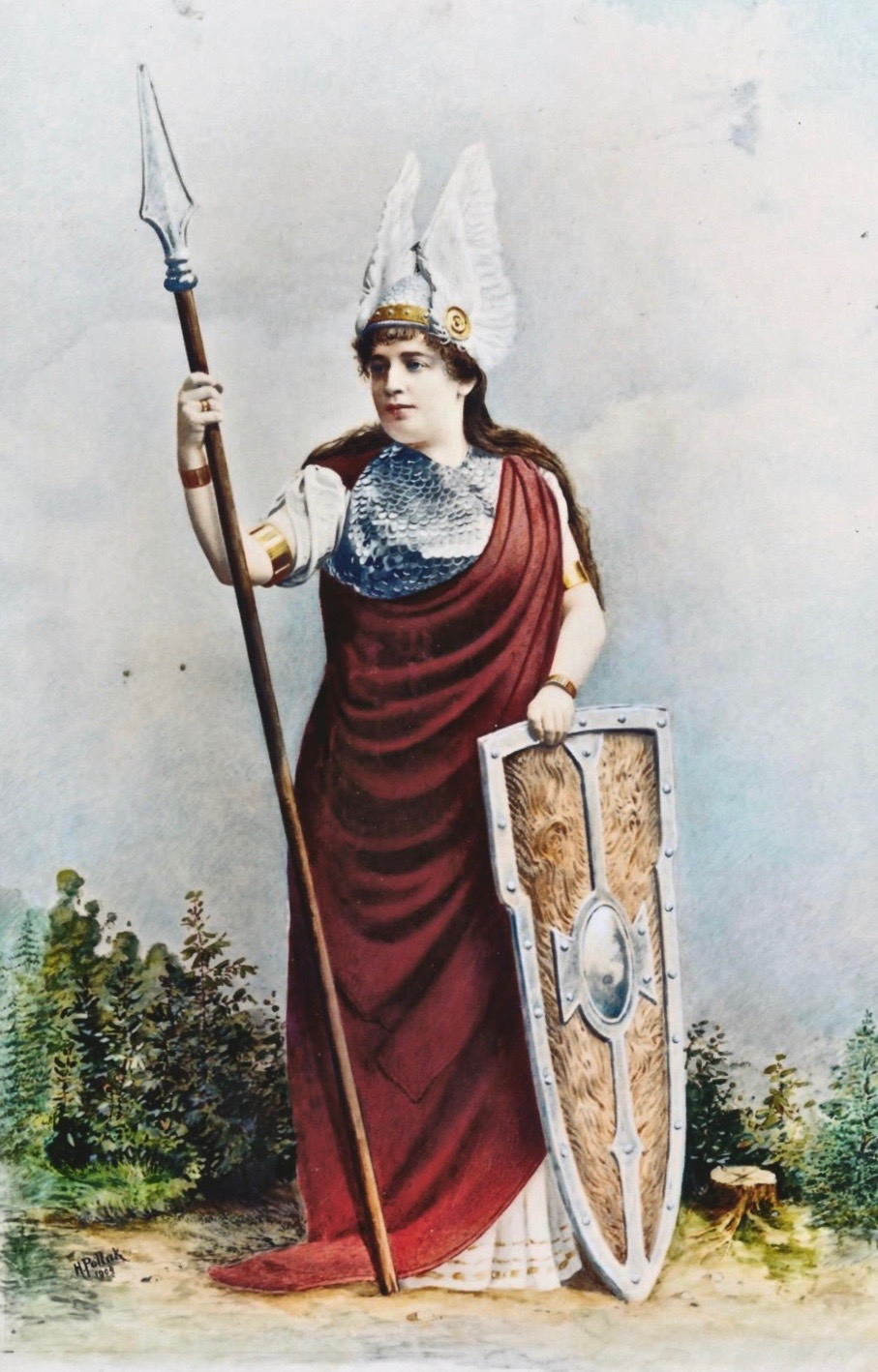 Tinted photograph of a painting of Amalia Carneri in full Wagnerian costume, with spear and shield, painted by her husband, Heinrich Pollak, in Vienna in 1909.